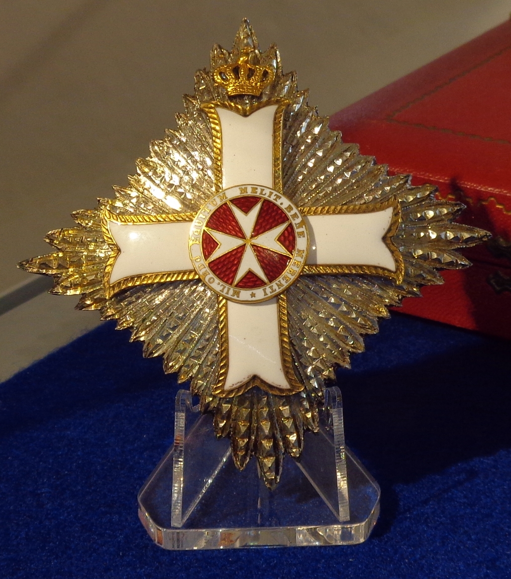 Order of Merit pro Merito Melitensi, star of Grand Officer, c.1930. Order of Malta. The exhibition of the Tallinn Museum of Orders of Knighthood, Estonia.